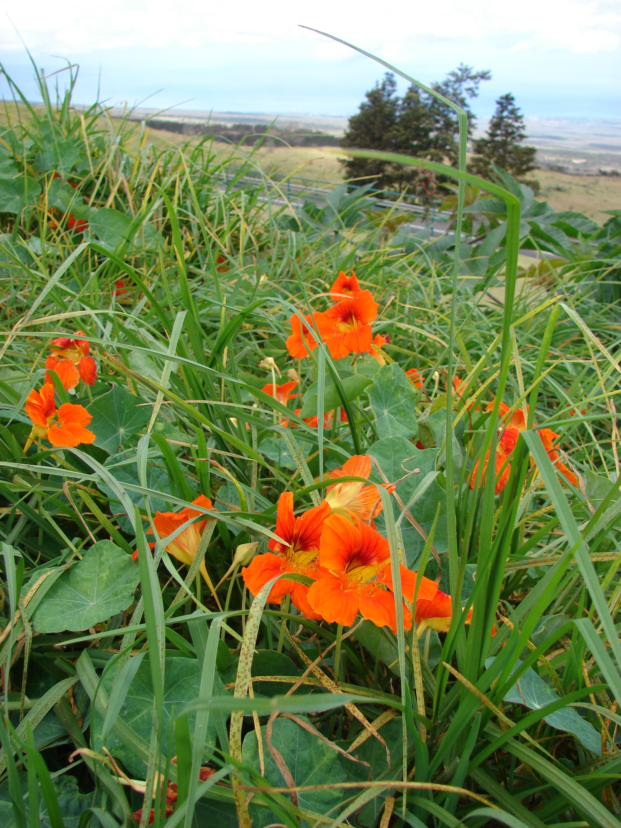 Tropaeolum majus (flowers). Location: Maui, Rice Park Kula